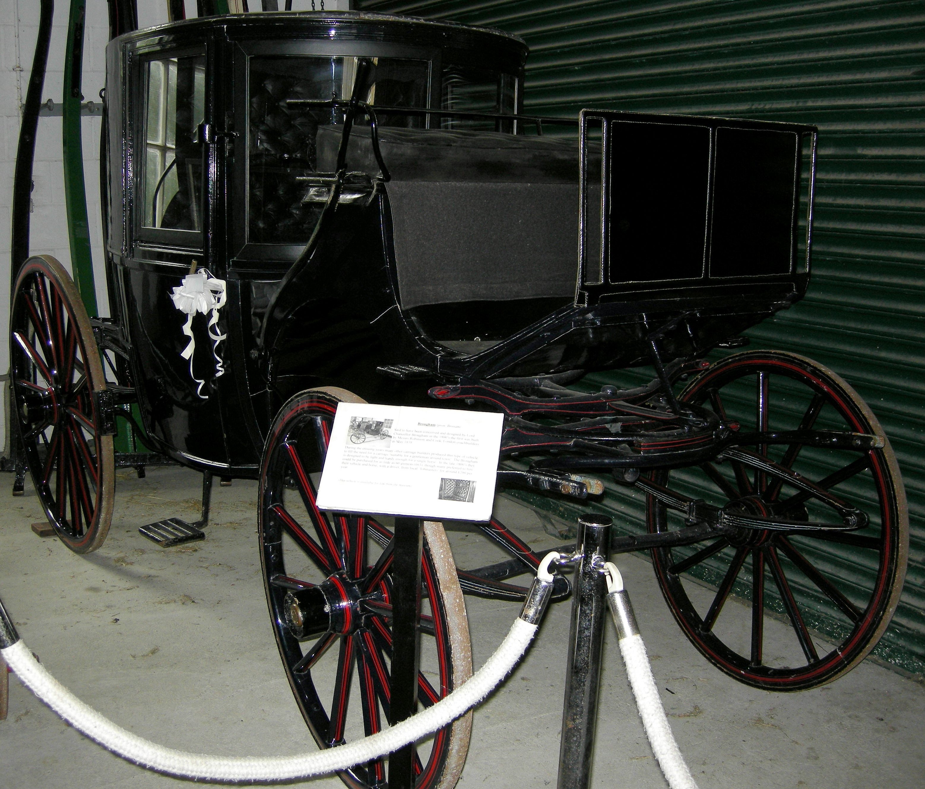 Brougham in Bradford Industrial Museum, Bradford, West Yorkshire, England.